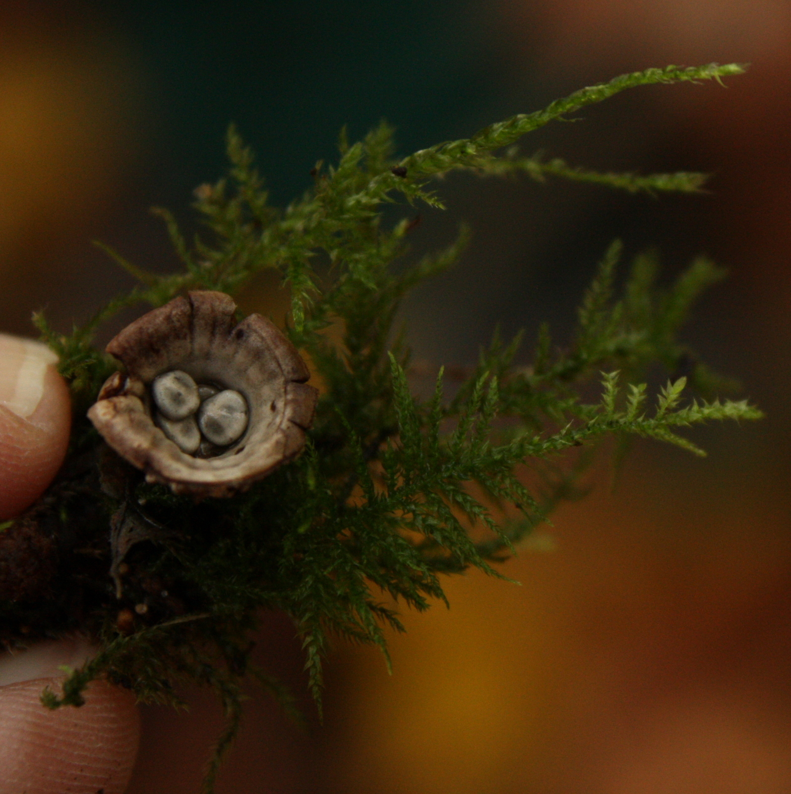 Bird's nest fungi. So named because, well, for how it looks. The "eggs" are little spore packets. When a drop of water falls into the "nest," it knocks out the packet, helping spread the spores.